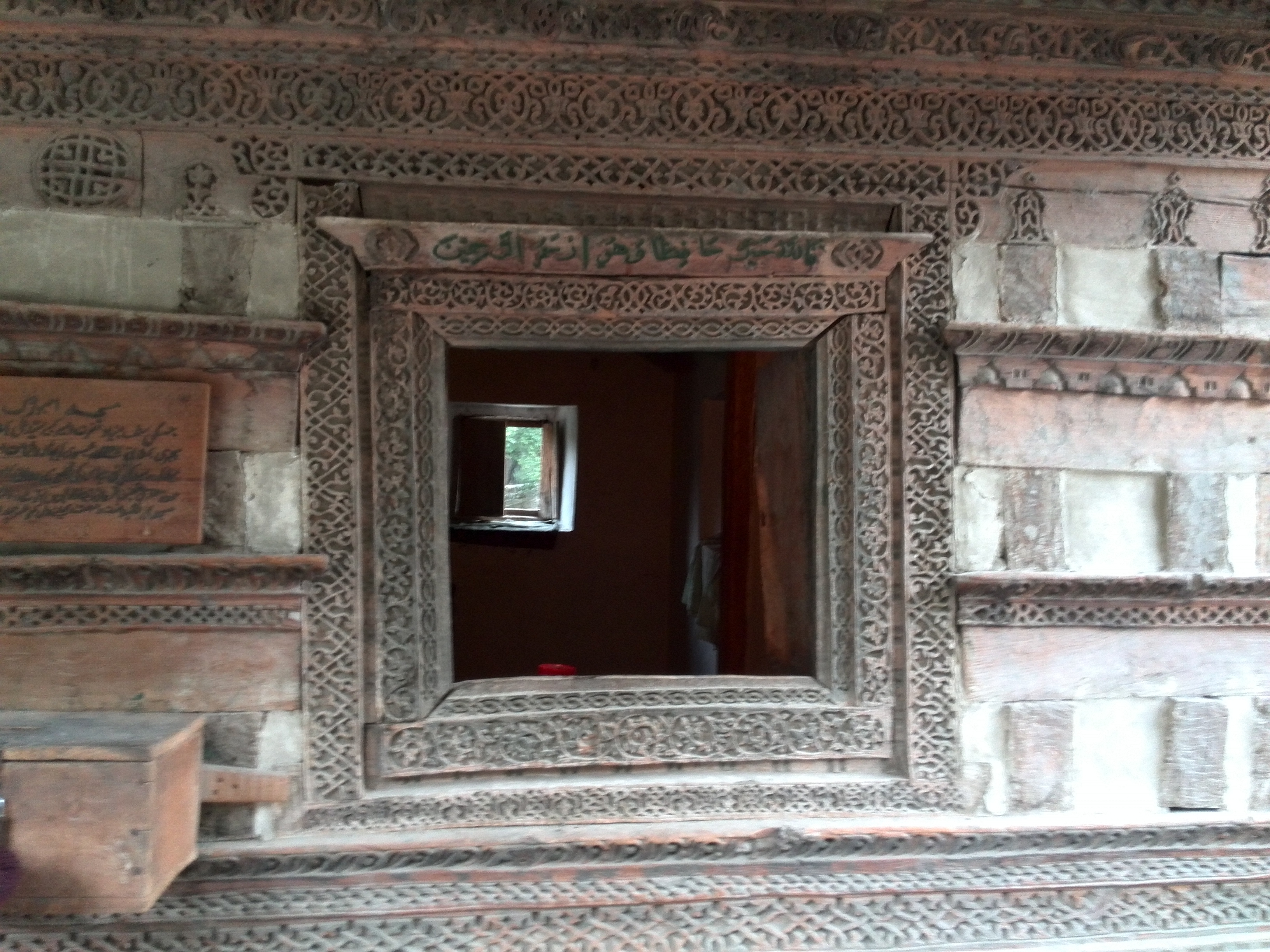 Amburik Mosque Window This is a photo of a monument in Pakistan identified as the GB-19